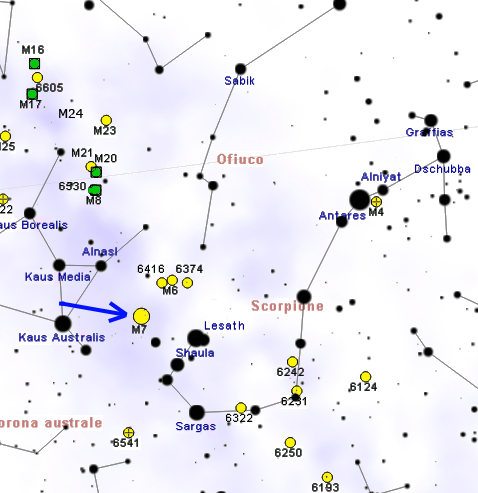 M6